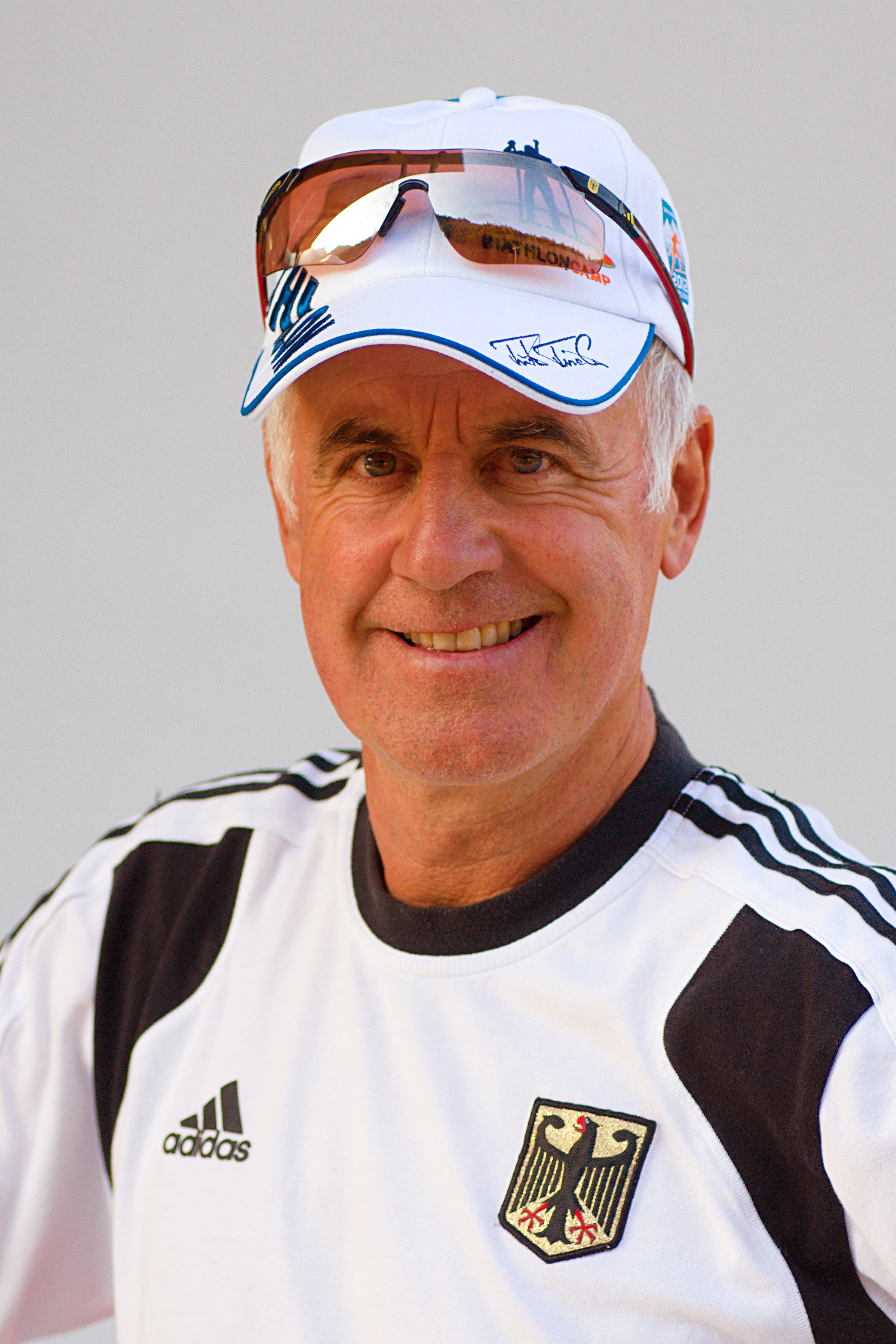 Fritz Fischer (2012)